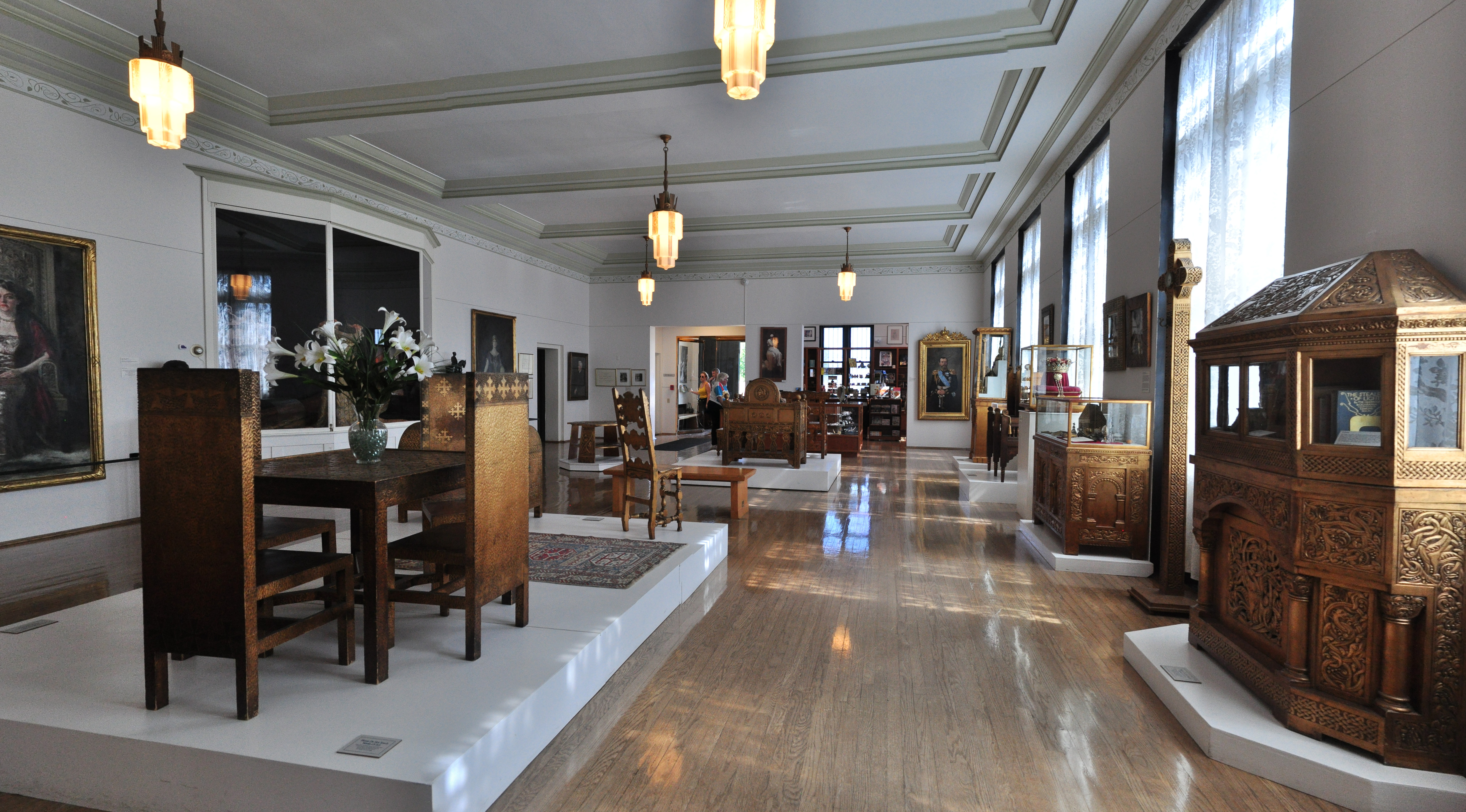 Interior of Maryhill Museum of Art, Maryhill, Washington. This is the room through which you enter the museum, and contains mainly gifts of Queen Marie of Romania), including many furnishings from Template:Cotroceni Palace. This image was created with Hugin.